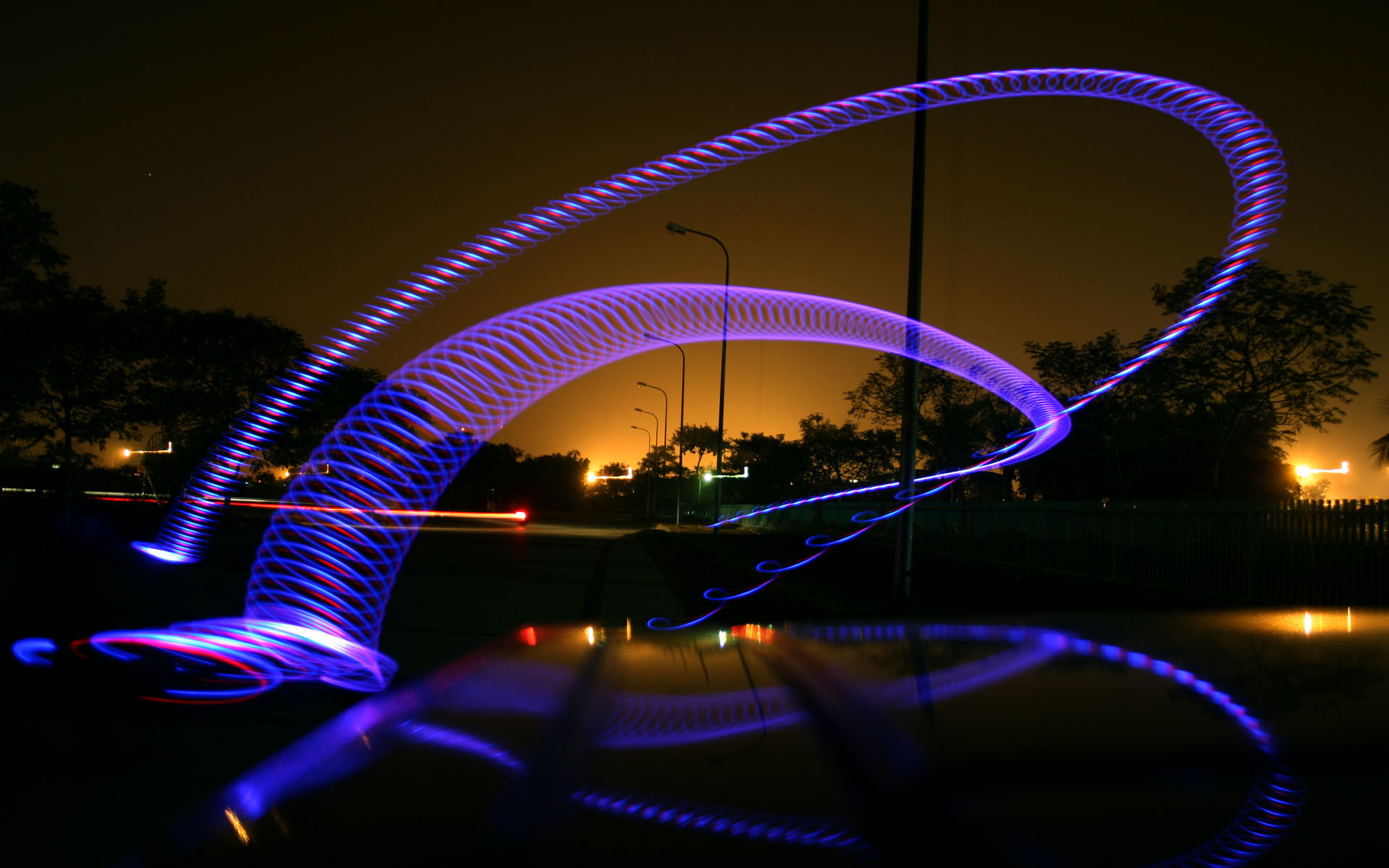 TOSY_UFO_Returning